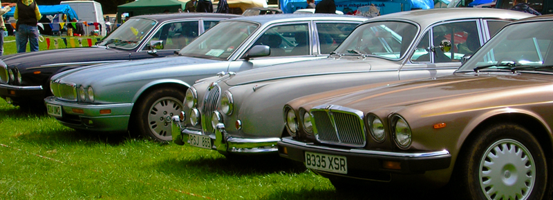 Old Jaguars in a row. Scottish Extravaganza 2008.